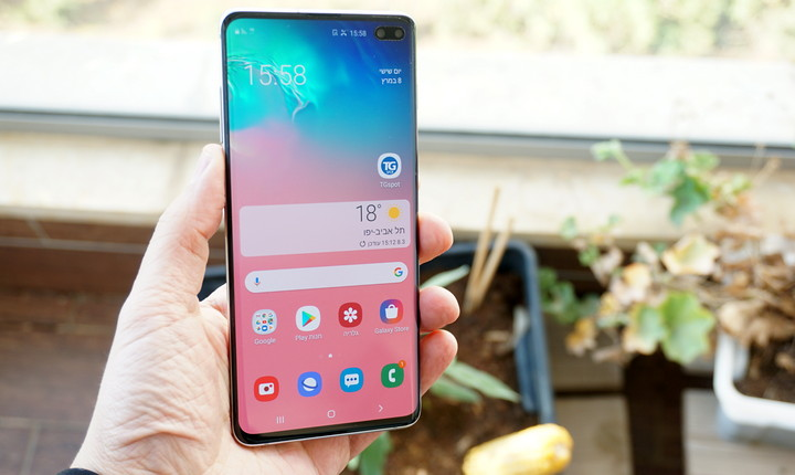 Front look of the Galaxy S10+ hands on